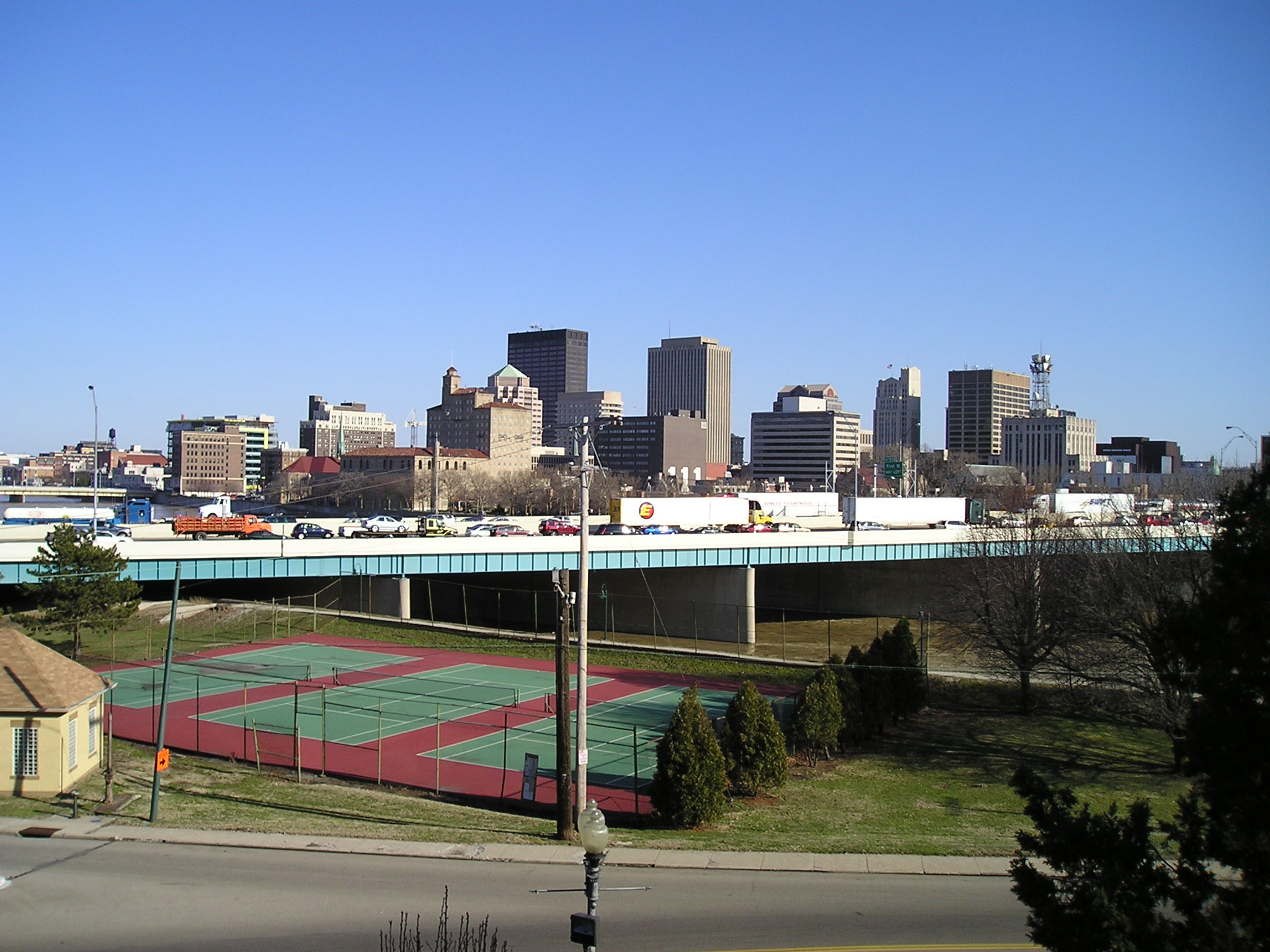 Best skyline I've managed to get so far. View from Dayton Art Institute